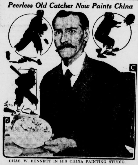 Charlie Bennett in his china painting studio